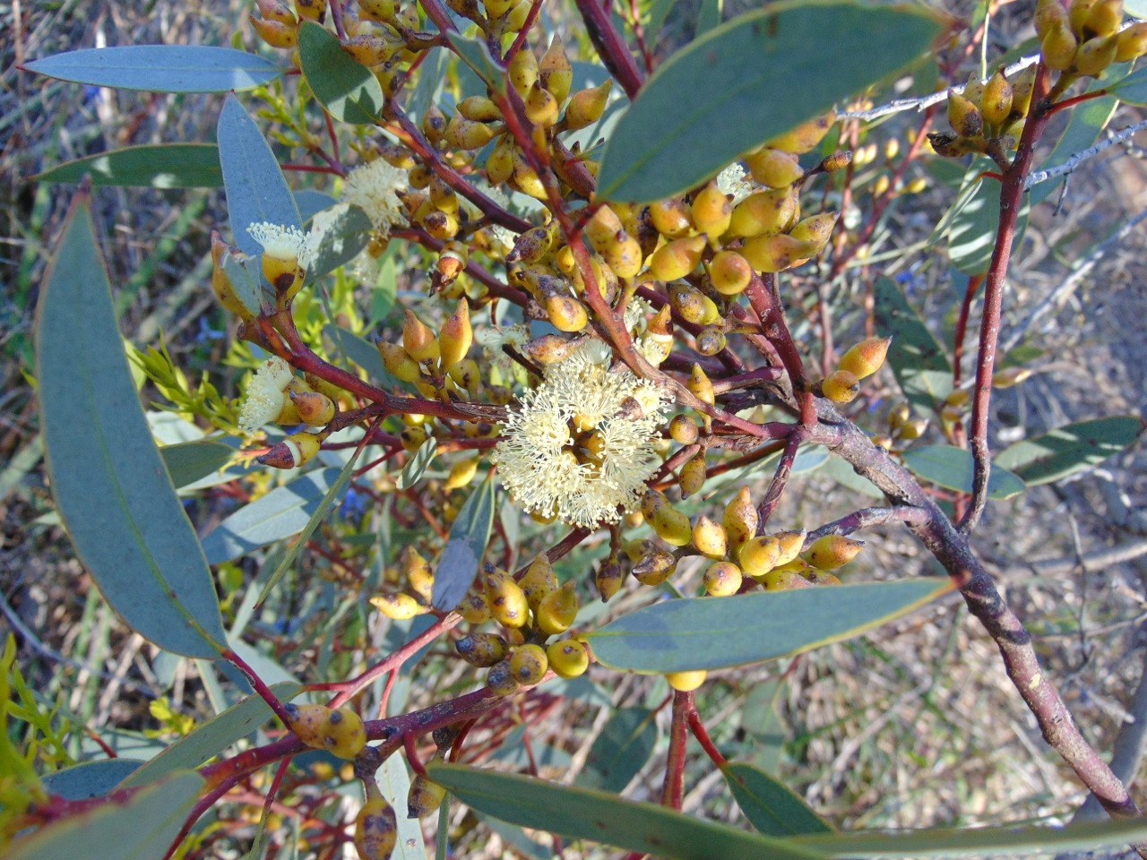 Eucalyptus socialis, Australian National Botanic Gardens Please respect author's moral rights by not changing this description or the image title.